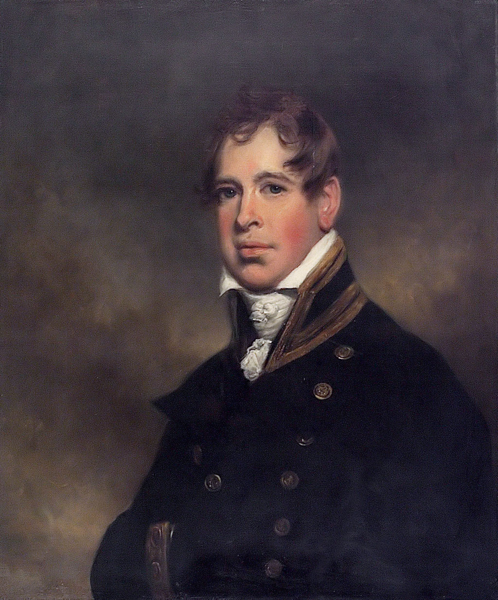 Portrait of William Beatty, wearing physicians' full uniform.